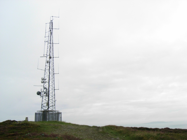 Ben of Howth Radio Mast Radio mast on the Ben of Howth, the highest point of Howth Head. Lambay Island is the distance behind.